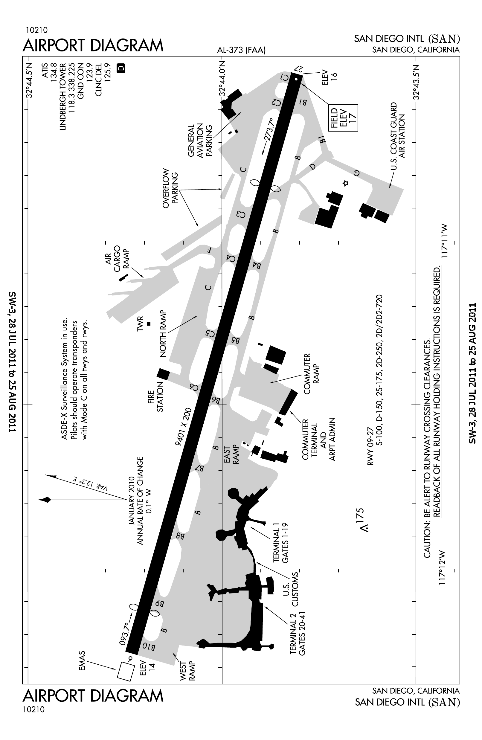 FAA airport diagram for SAN (San Diego International Airport) in California, United States.